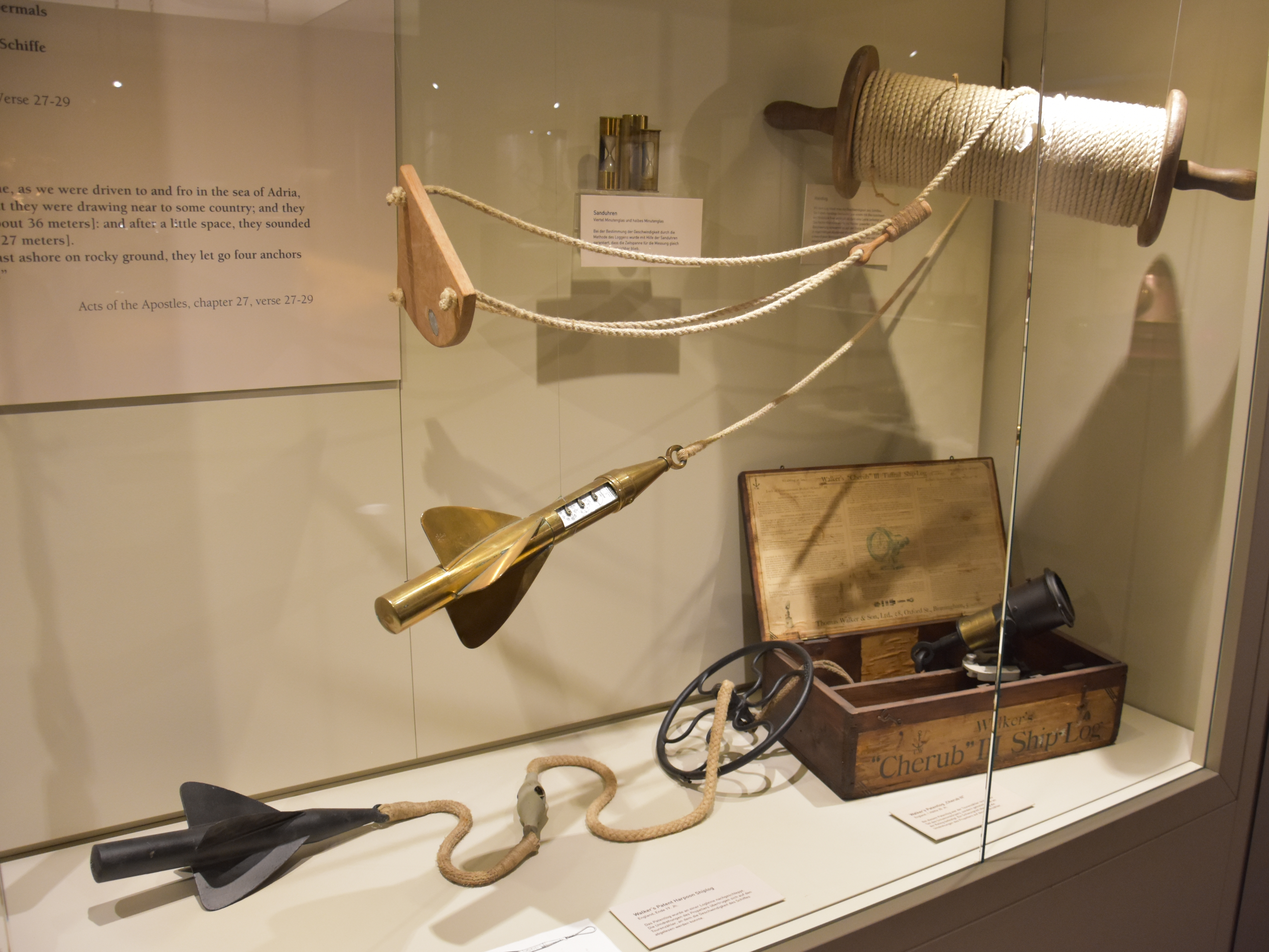 Different types of old ship logs. Top: Manual log with log rope to count knots. Middle: Patent log with counter on the shaft of the propeller. Bottom: Patent log with display instrument.